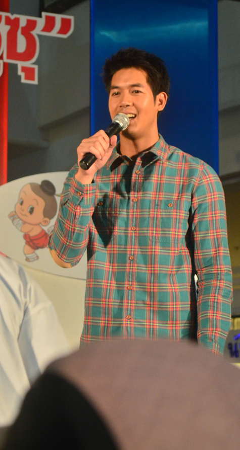 Sukollawat Kanaros